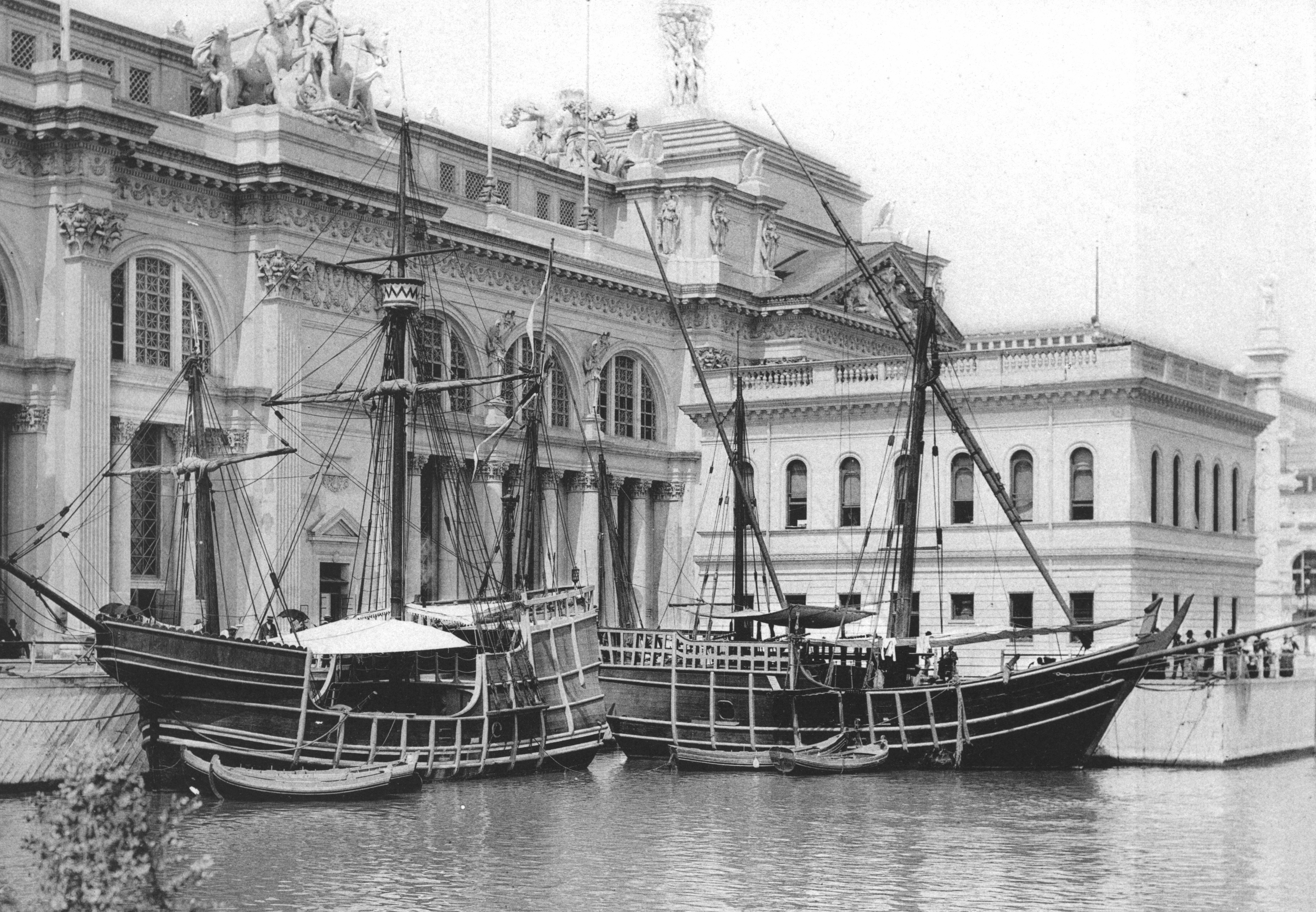 Official Views Of The World's Columbian Exposition: The Nina And Pinta [Columbus caravels docked beside the east facade of Agricultural Building, South Pond Inlet. On the right: Engine Company 1 settlement of the Columbian Exposition Fire Department??]